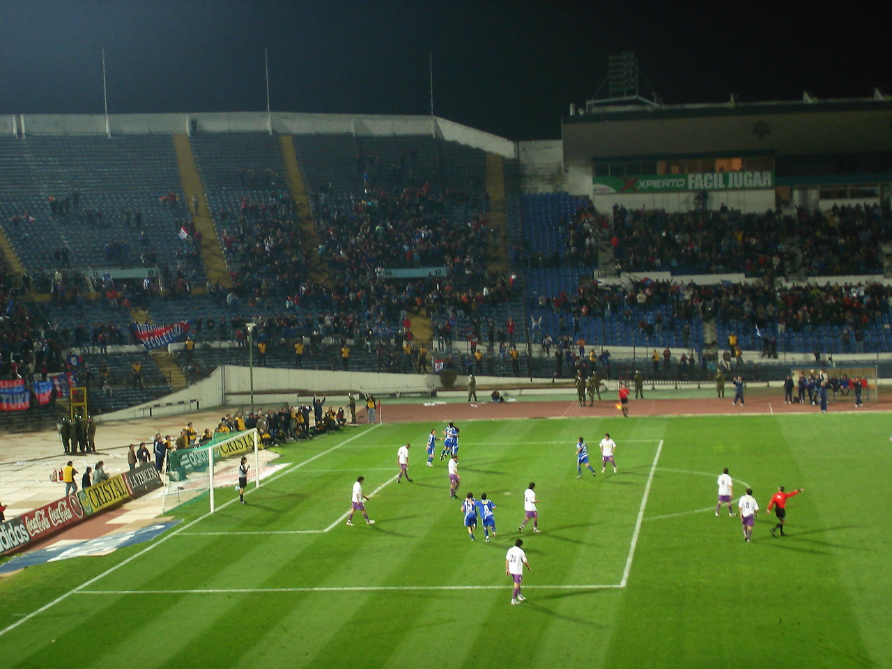 Match between Universidad de Chile and Deportes Concepción (5:2), at the National Stadium, Santiago de Chile.